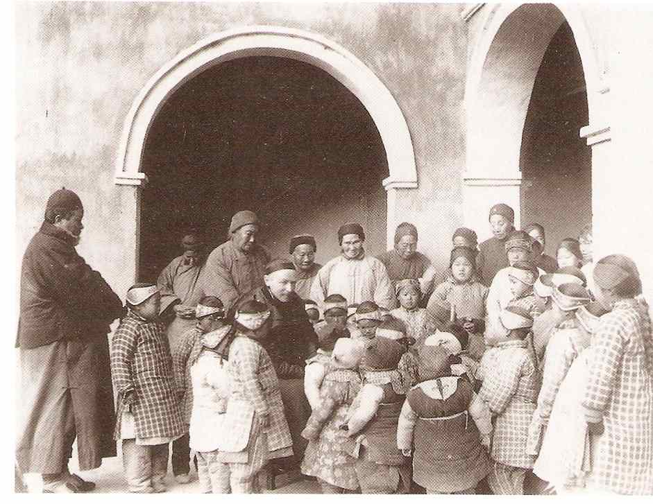 Frédéric-Vincent Lebbe